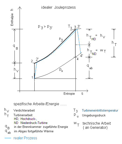 The Brayton cycle